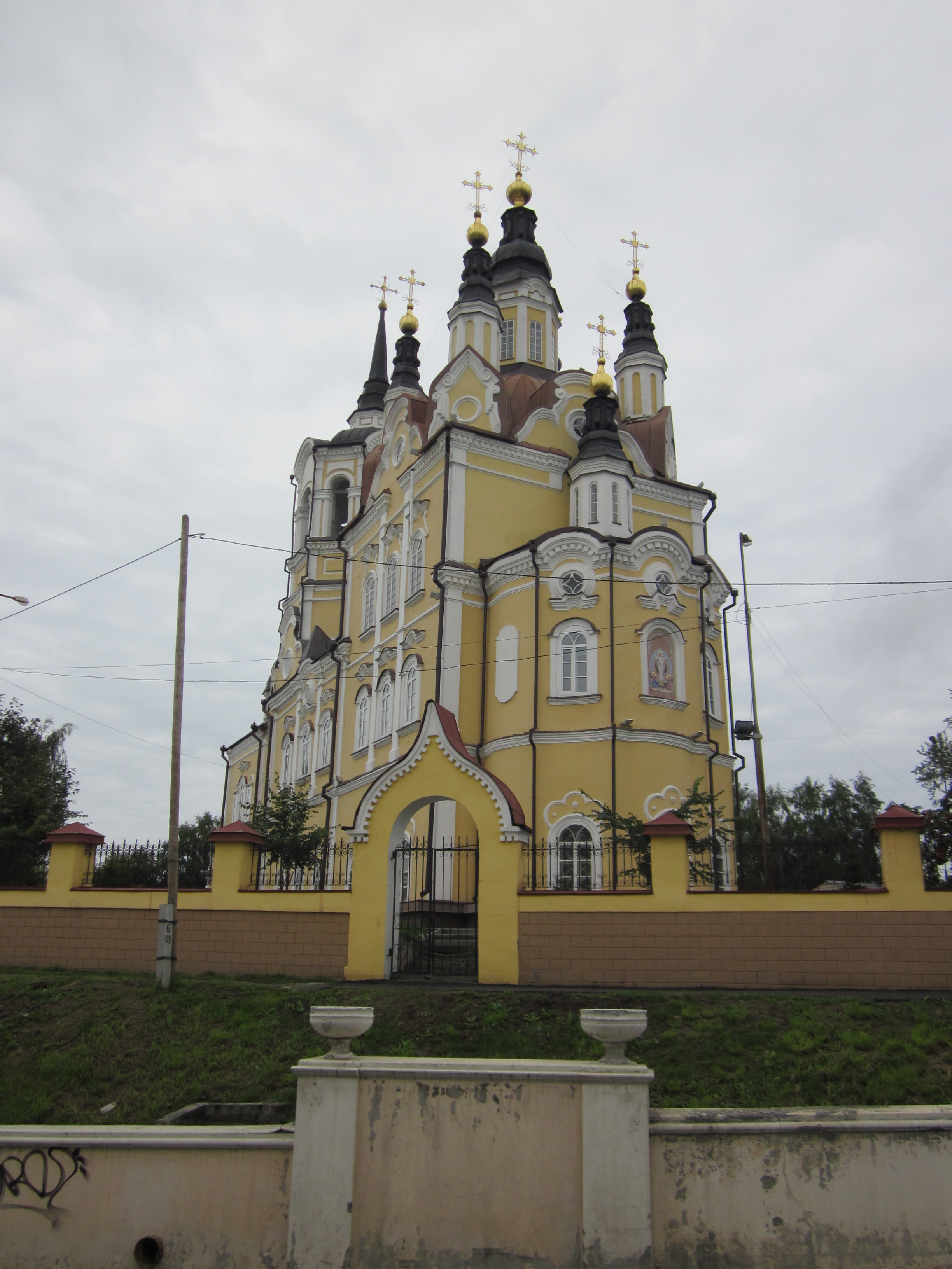 Church of the Resurrection of Christ in Tomsk, Russia